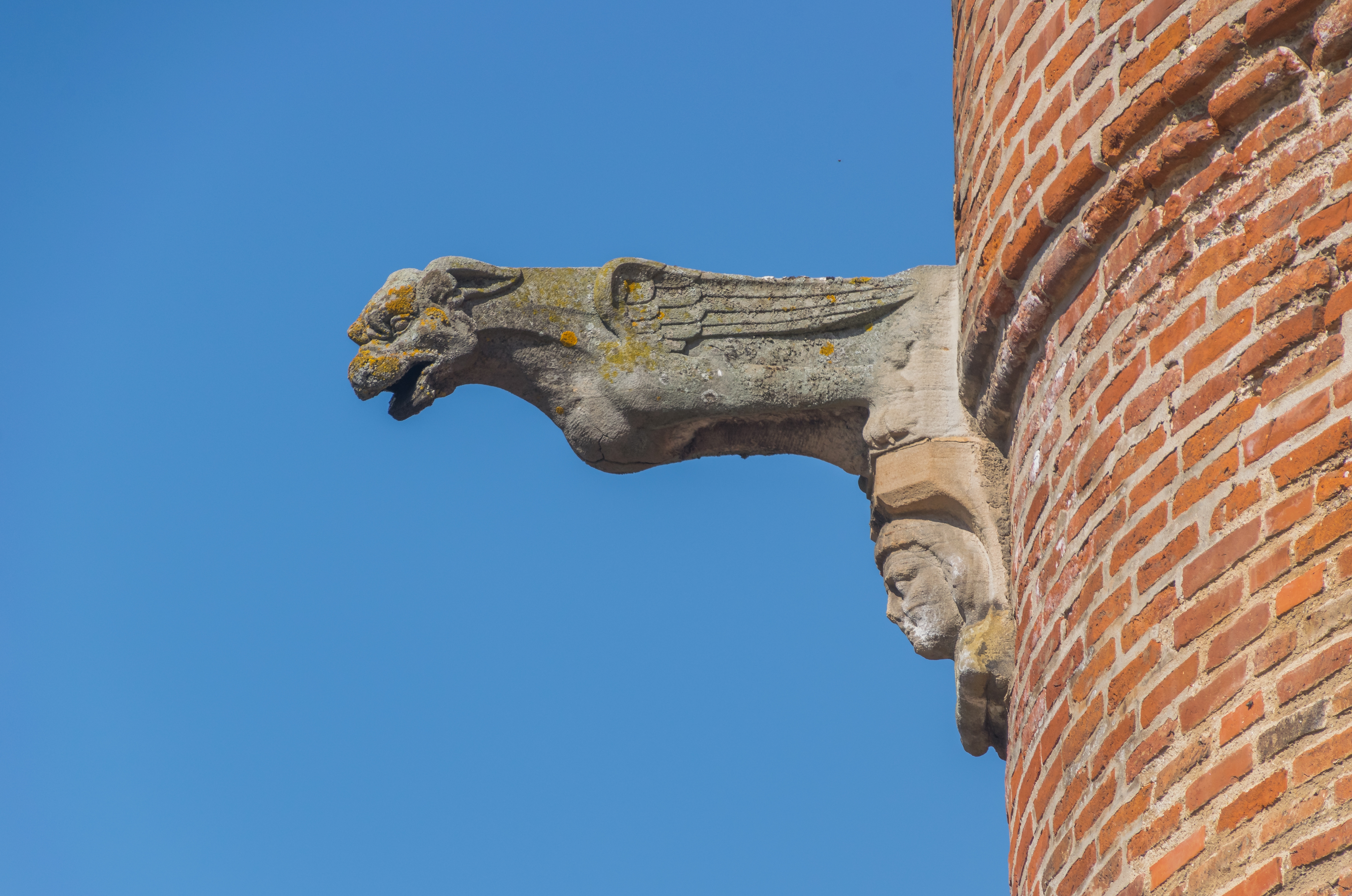 Sculpture on the porch of the Saint Cecilia Cathedral of Albi, Tarn, France This place is a UNESCO World Heritage Site, listed as Cité épiscopale d'Albi.